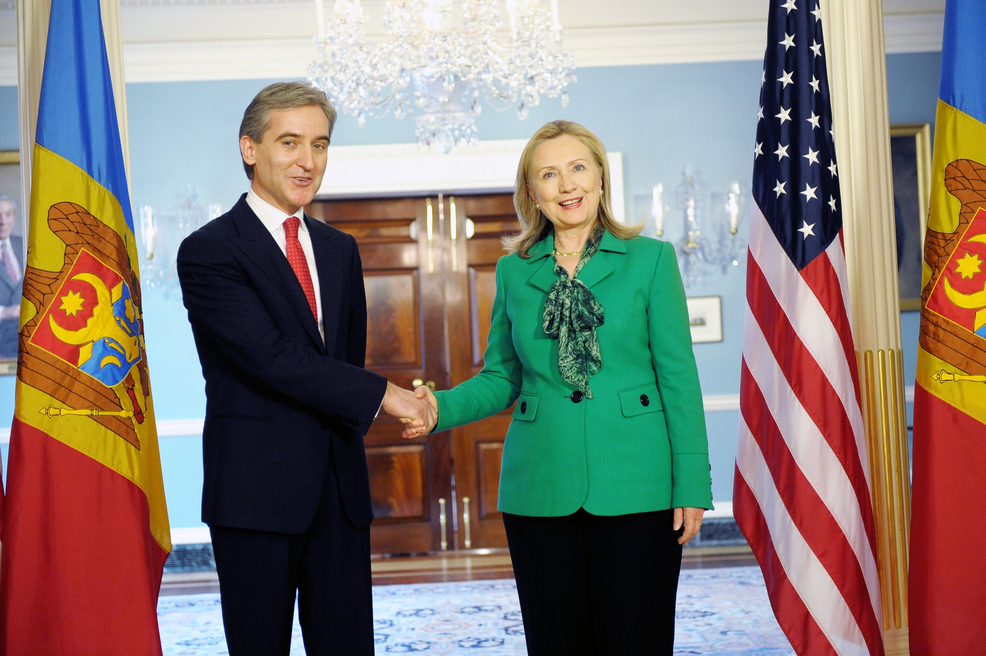 U.S. Secretary of State Hillary Rodham Clinton meets with Deputy Prime Minister and Minister of Foreign Affairs and European Integration Iurie Leanca of the Republic of Moldova at the Department of State in Washington, D.C. on March 20, 2012.